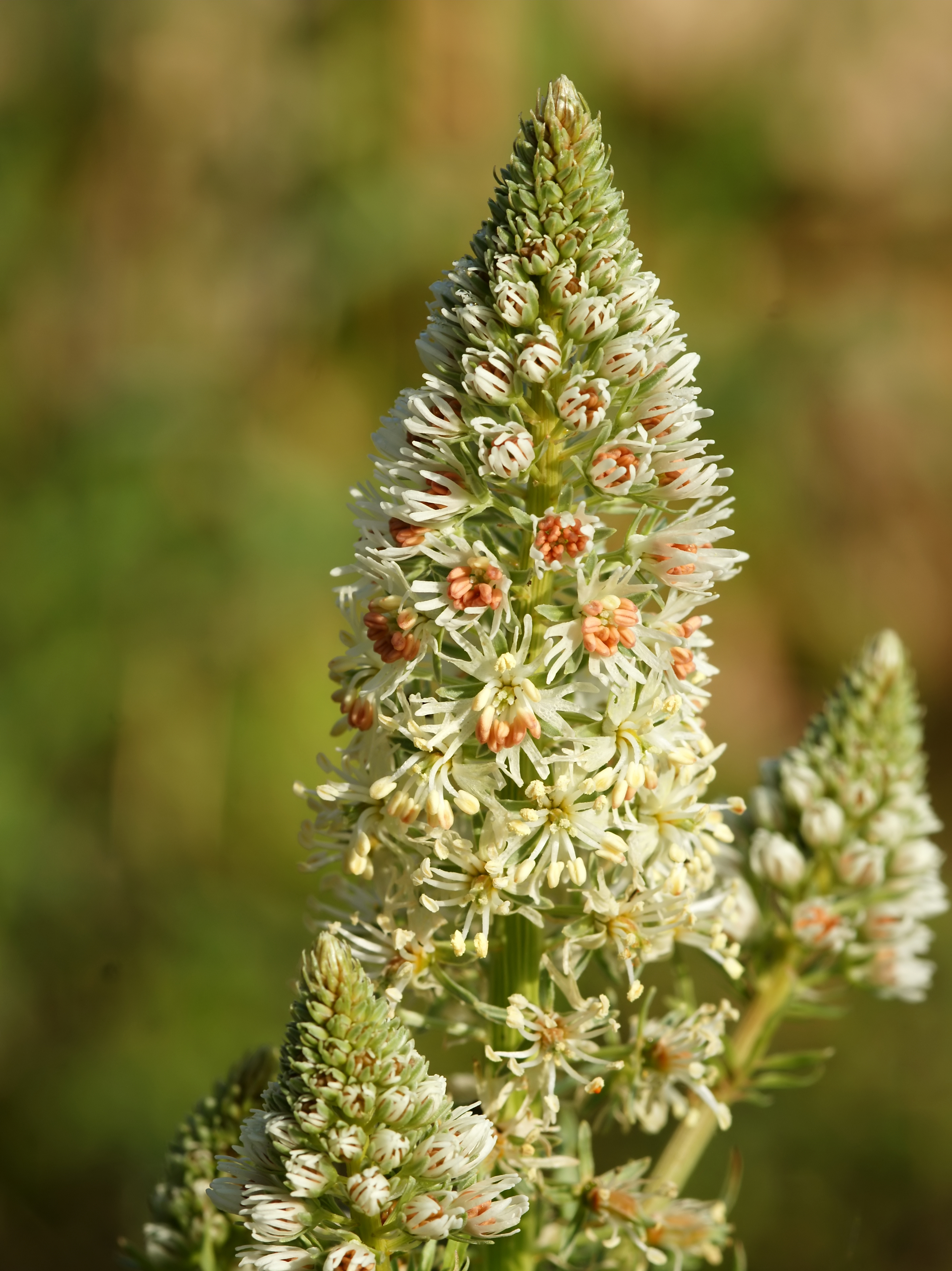 White upright mignonette. Close to Es Llombards, Mallorca, Spain